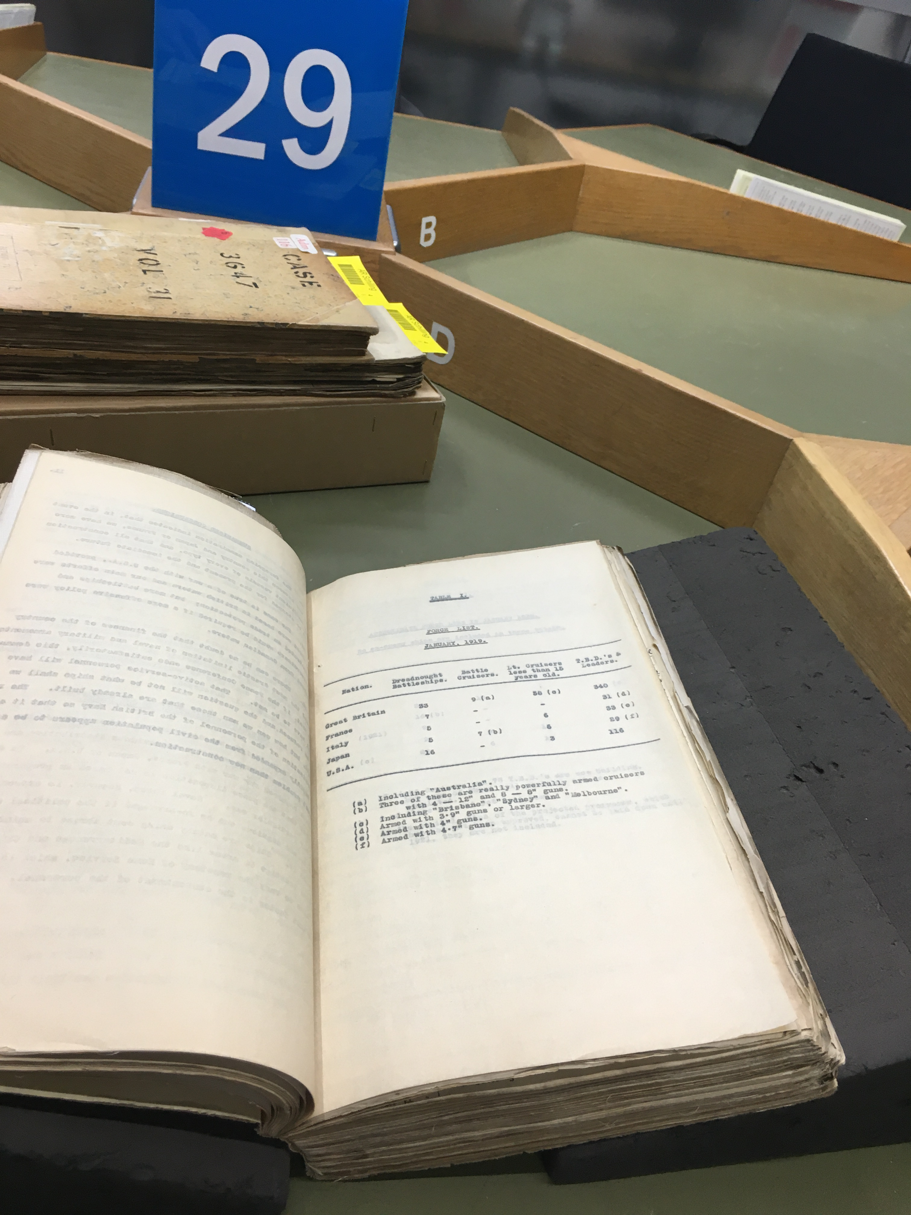 A researching inspecting a volume of Admiralty documents from the 1919 time period at The National Archives, Kew. Foam wedges are placed underneath the volume to prevent its binding from cracking.